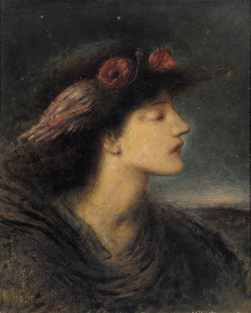 Night